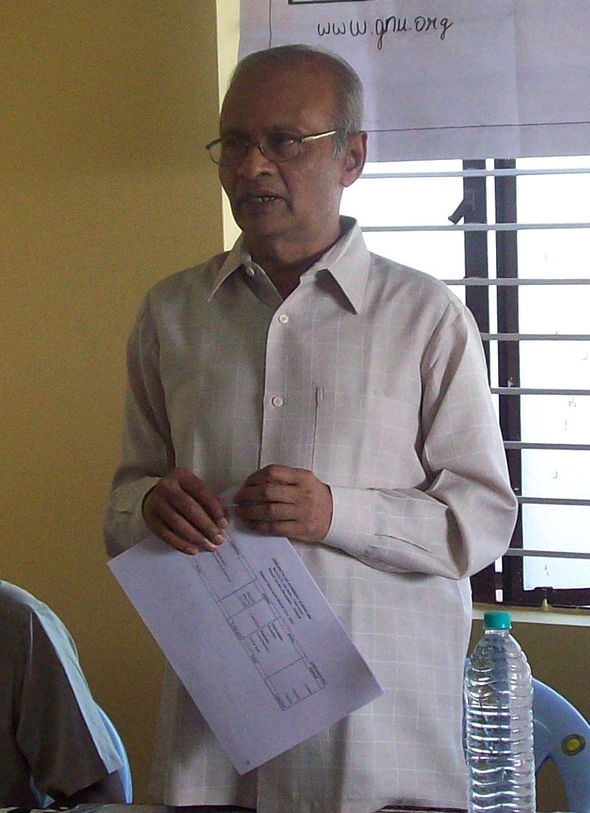 Prof.K Chidananda Gowda, in Bangalore at the Free Software Movement-Karnataka